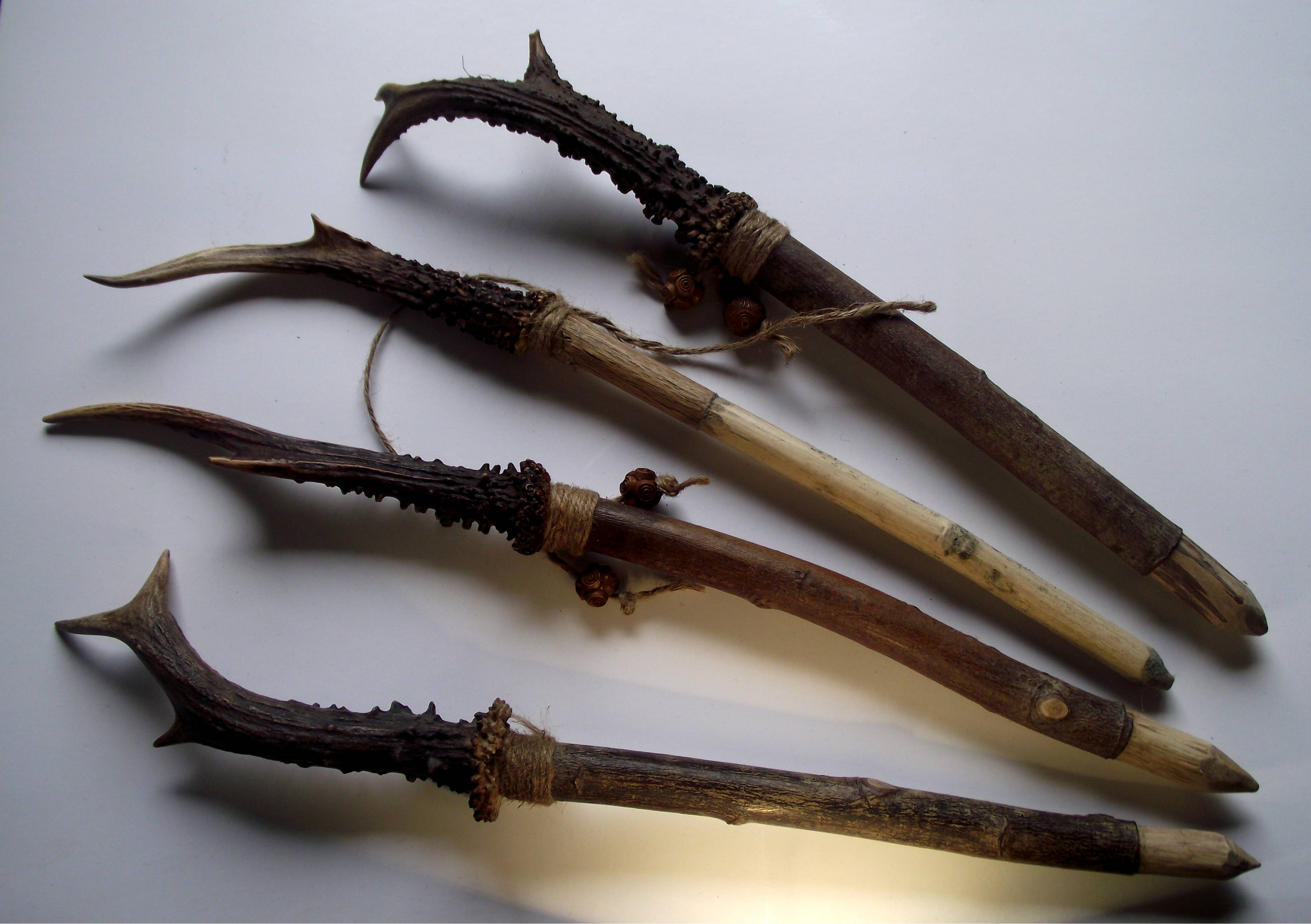 From Mal Corvus Witchcraft & Folklore artefact private collection owned by Malcolm Lidbury (aka Pink Pasty) Witchcraft Tools